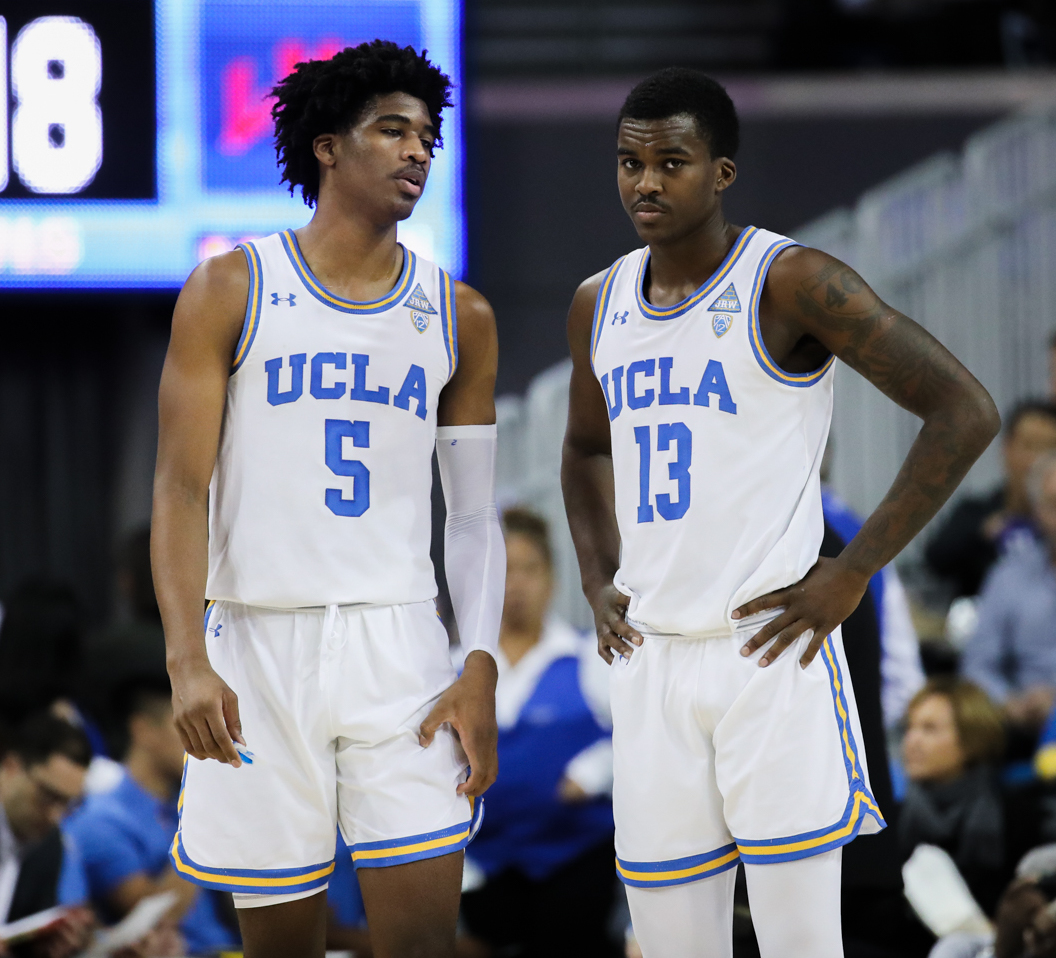 UCLA Bruins guard Chris Smith (5) and guard Kris Wilkes (13).